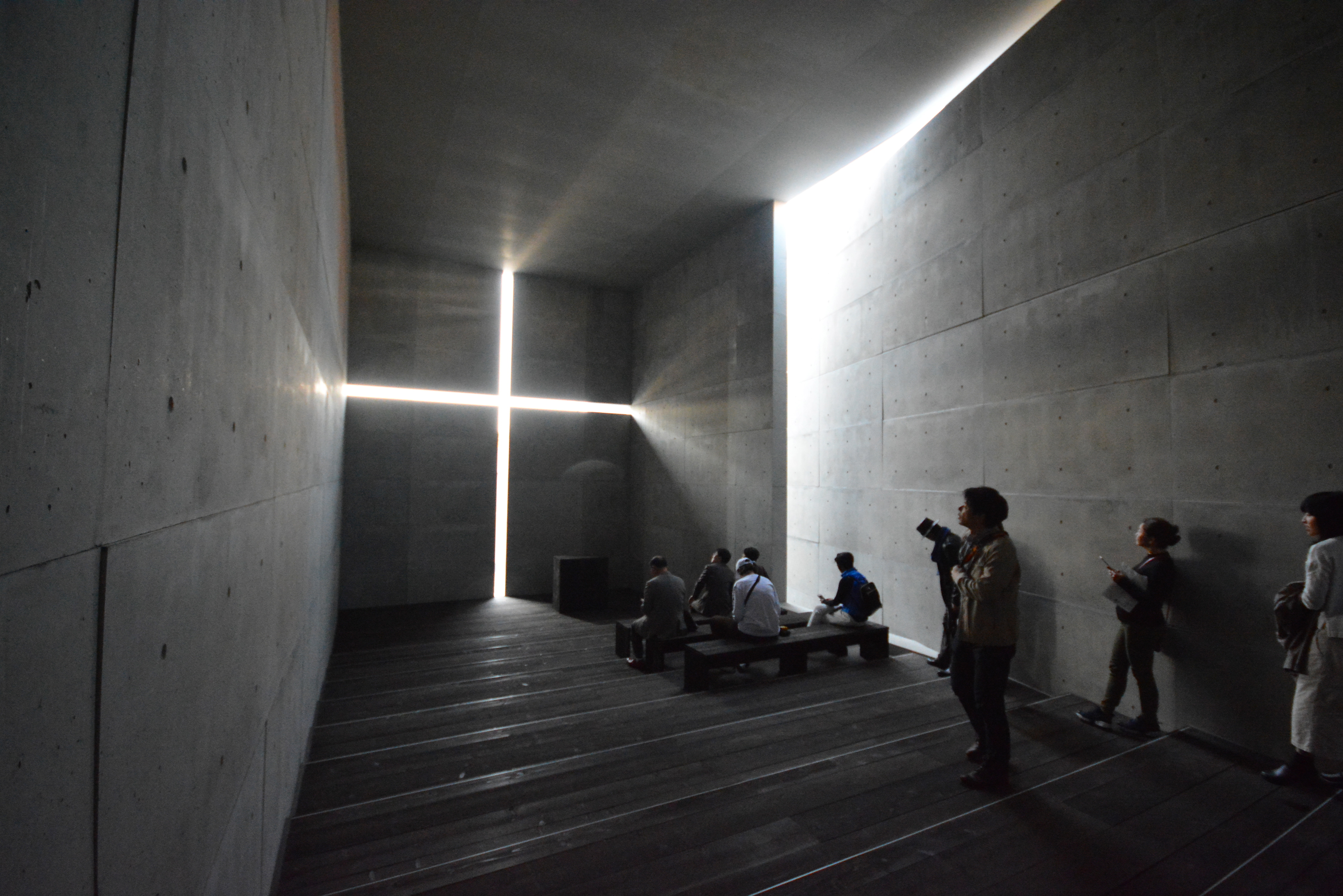 Life-size replica model of the Church of the Light, in the Tadao Ando Exhibition at National Art Center, Tokyo (国立新美術館). [1]